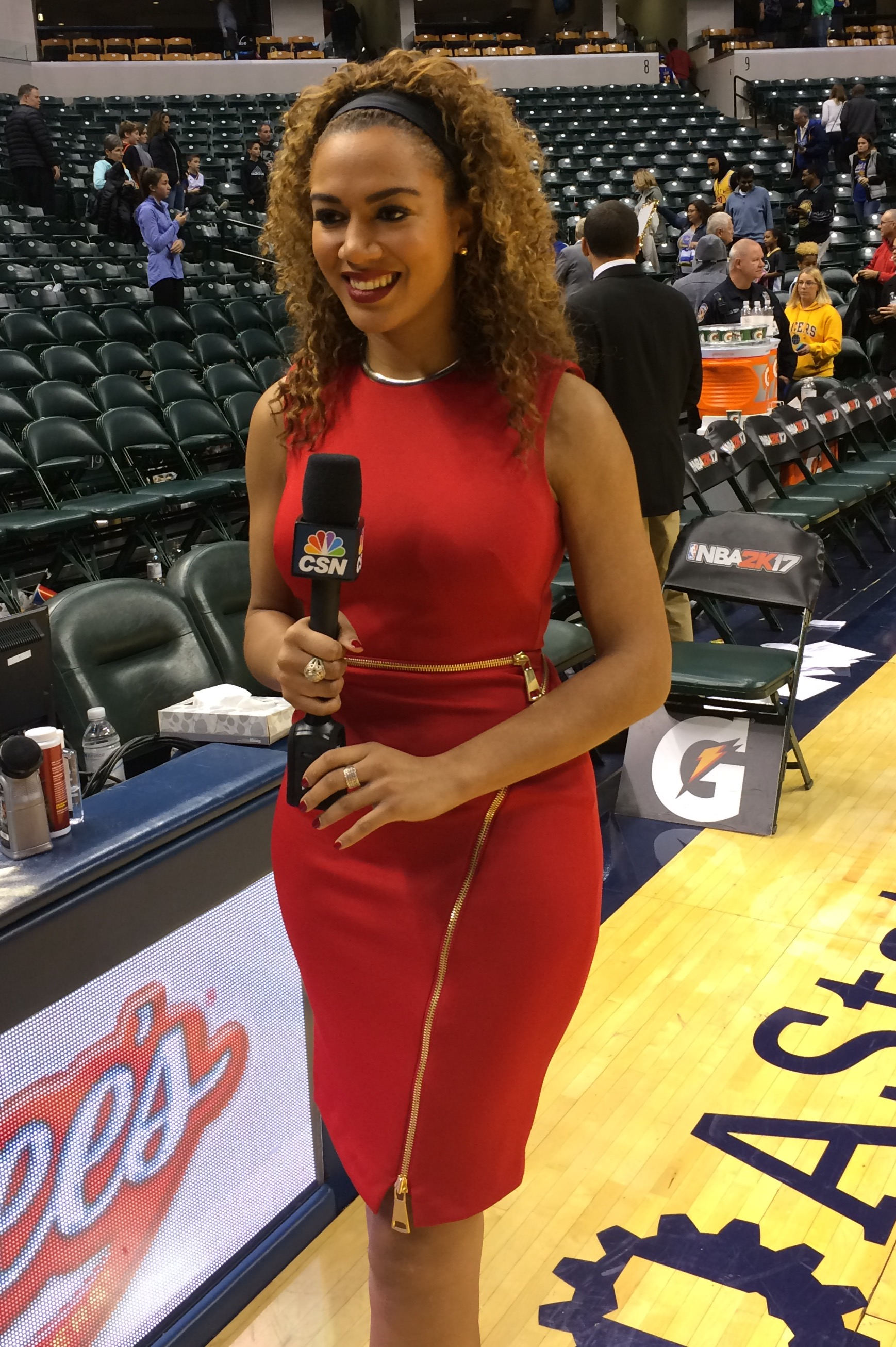 Gold-Onsude for a post-game inteview for CSN Bay Area after a Indiana Pacers, Golden State Warriors Basketball game in 2016.